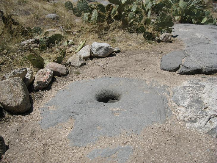 The photo shows a pothole in the rock near the lower dam on the Pima Canyon Trail.